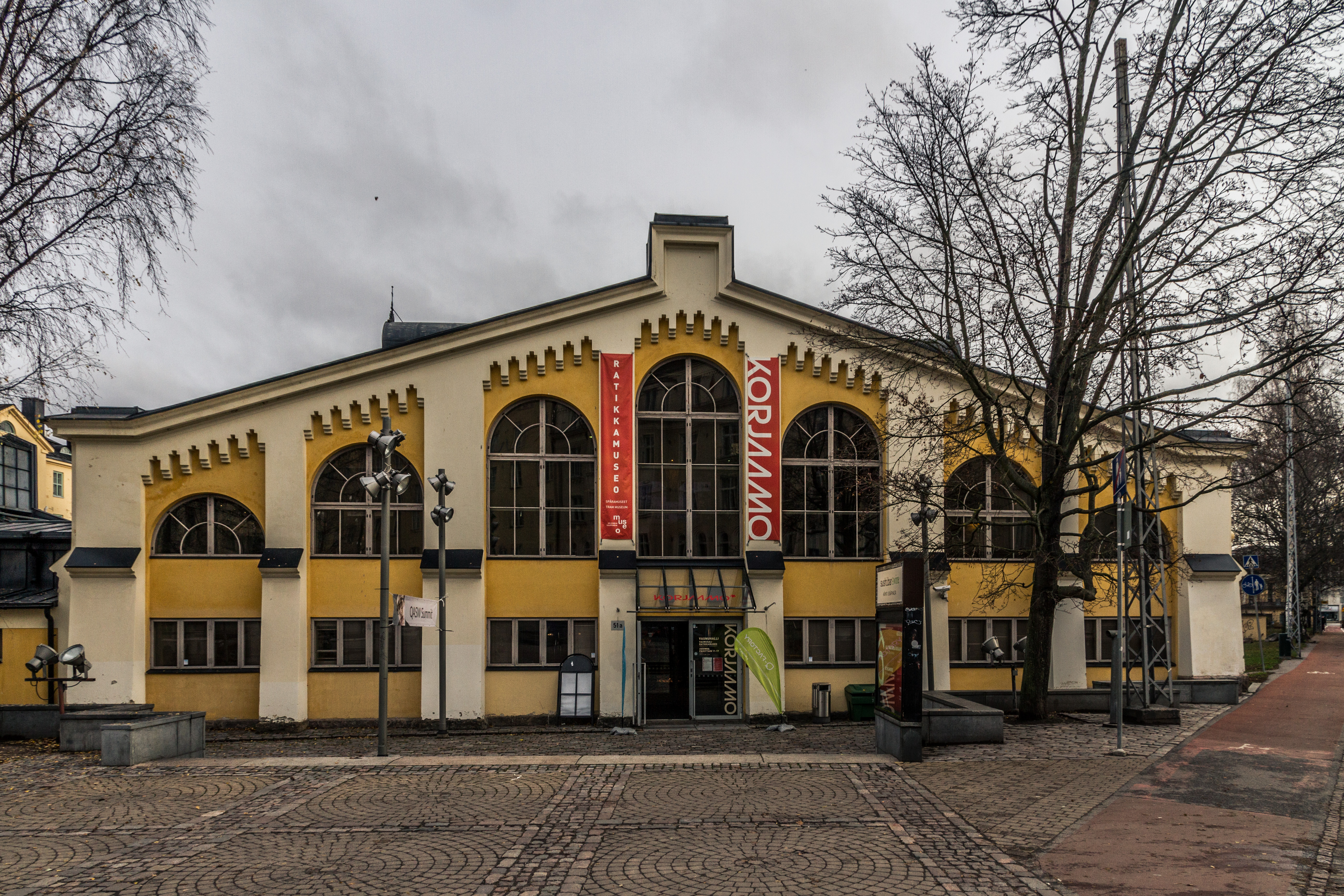 Tram museum in Helsinki